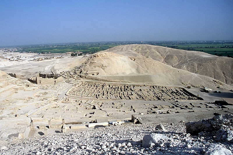 View to Deir el-Medina, Luxor West Bank, Egypt